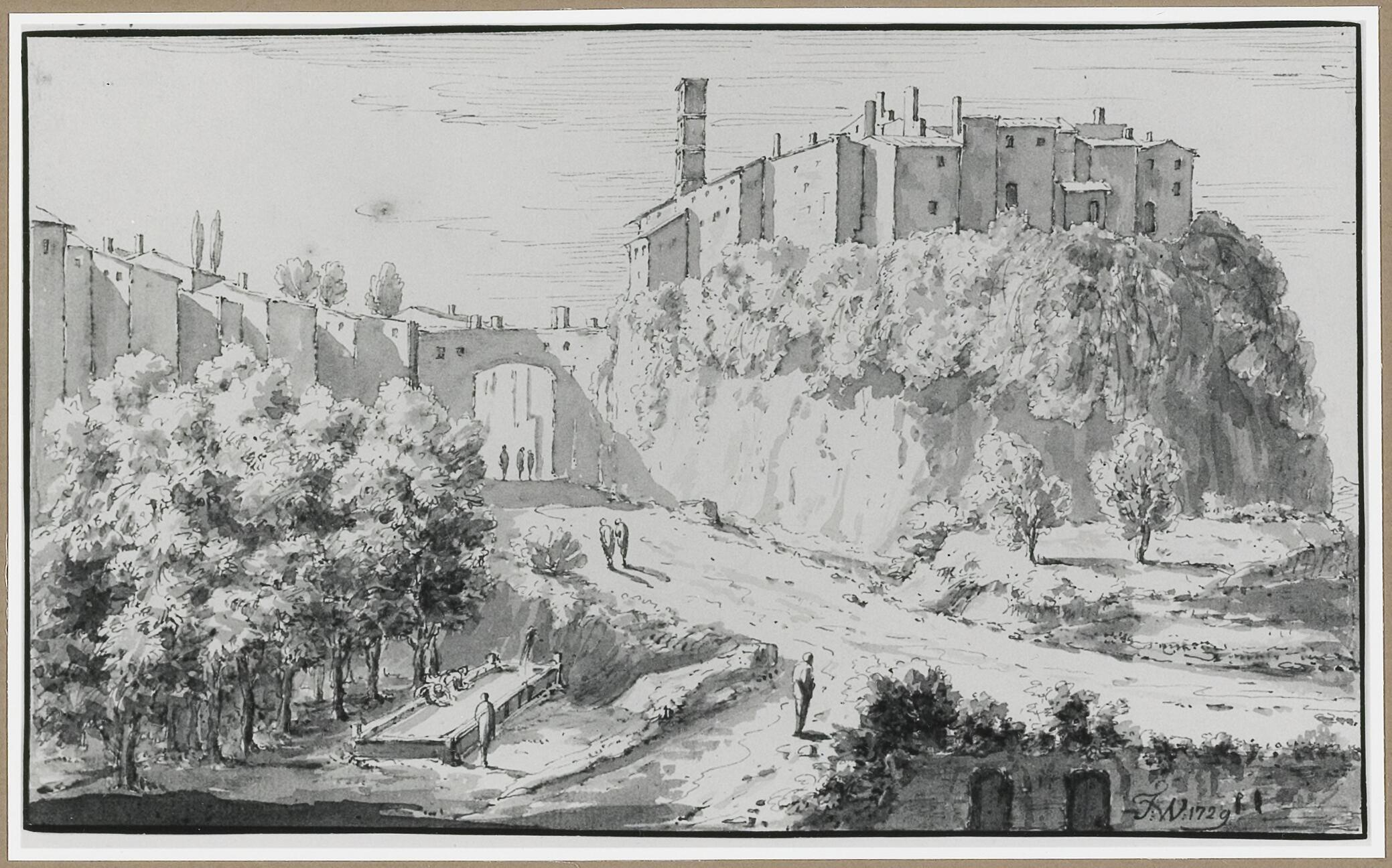 Washing place outside Italian city, signed and dated 1729